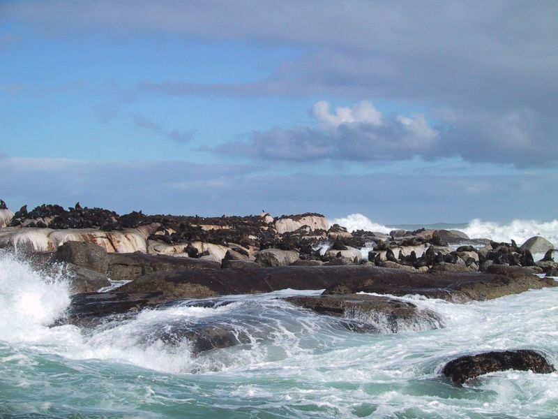 Seal Island, Hout Bay, Cape Town, South Africa